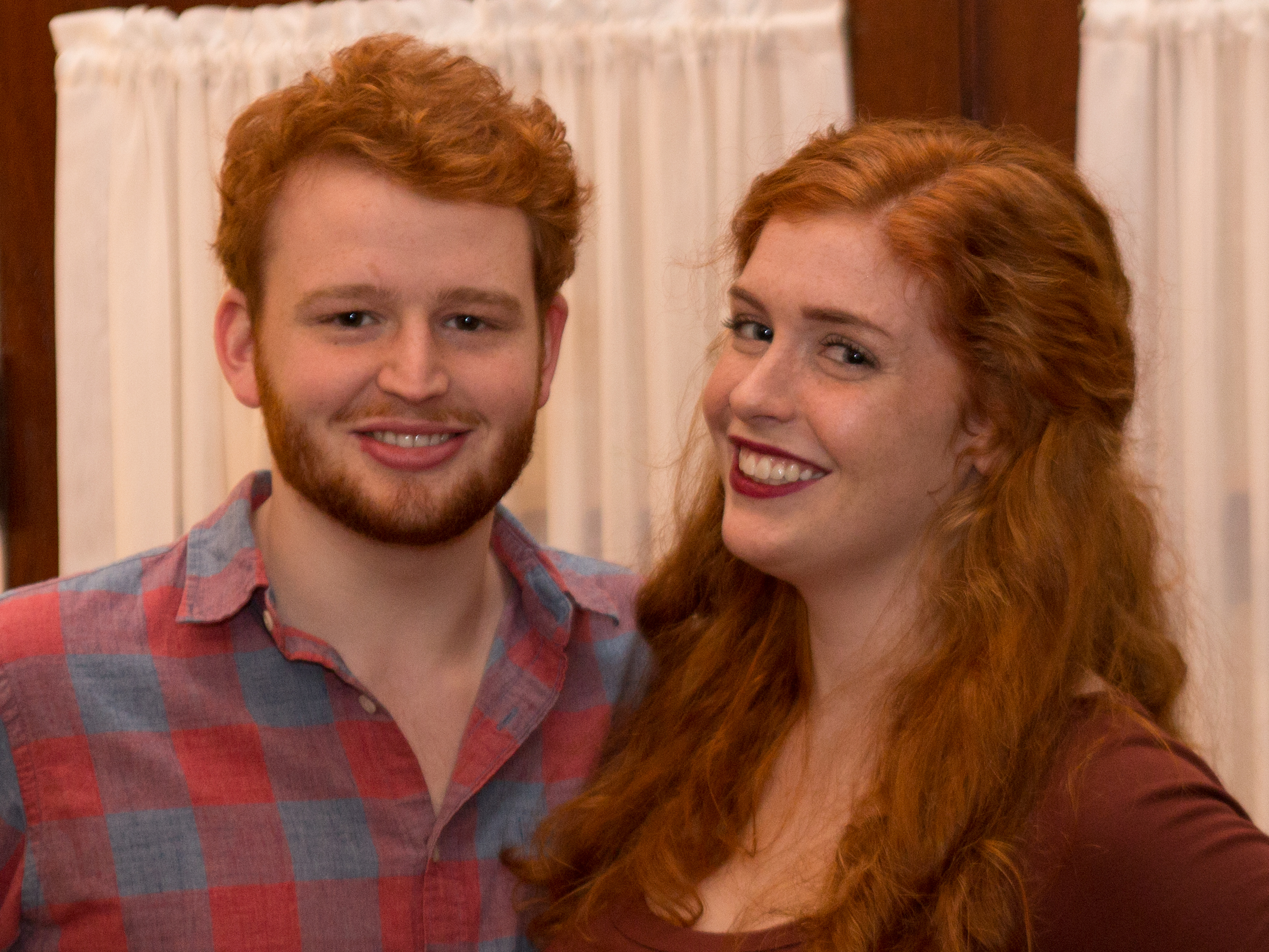 Fraternal twins with red hair.